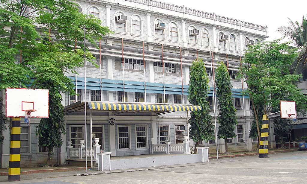 quadrangle facade of Our Lady of Perpetual Succor College